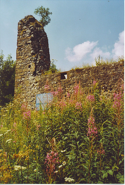 Lochwood Castle. The scant remains must have once been open to the public as there is a blue board with historical information. Now it is overgrown with weeds and fenced off from the minor road.